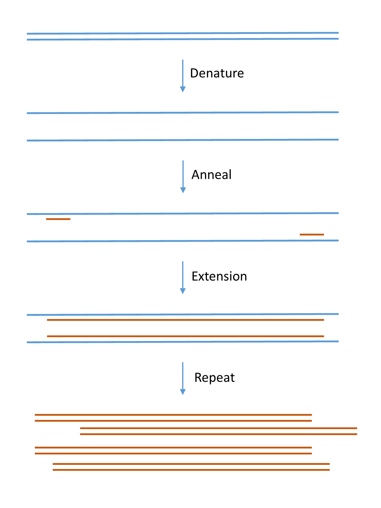 PCR. Double stranded DNA is heated to approximately 95°C to break the two chains apart (denature). Then it is cooled to a temperature where short pieces of single stranded DNA (primers) can bind (anneal). These primers will be complementary to the sequences in the DNA template. The DNA is then heated to an intermediate temperature to allow the polymerase to build the DNA chain from the primer (extension). These three process are repeated to produce large amounts of new double stranded DNA.